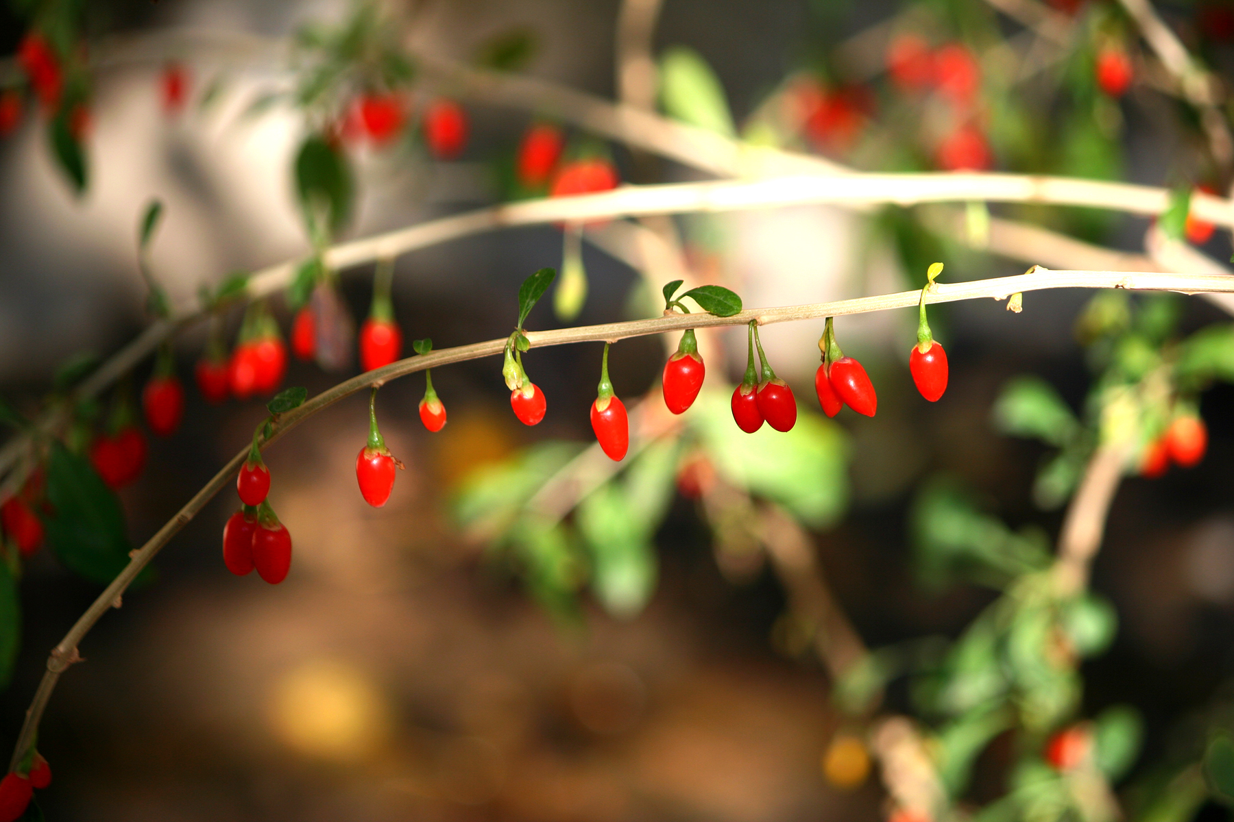 Lycium chinense is one of two species of boxthorn in the family Solanaceae from which the goji berry or wolfberry is harvested, the other being Lycium barbarum. Two varieties are recognized,chinense var. chinense and L. chinense var. potaninii. It is also known as Chinese boxthorn, Chinese matrimony-vine, Chinese teaplant, Chinese wolfberry, wolfberry,and Chinese desert-thorn.